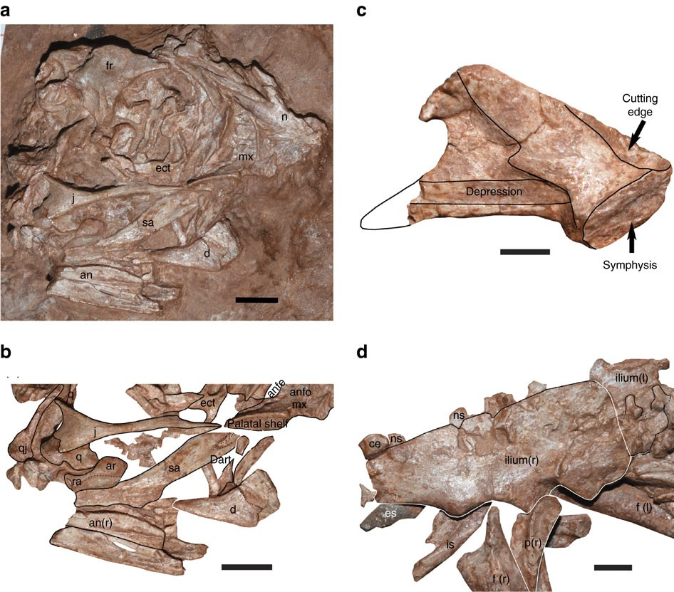 (a) Skull as preserved on right side. Scale bar, 1 cm. (b) Bones identified in lower part of skull and mandibles from (a). Scale bar is 15 mm. (c) Left dentary in medial view. Posteroventral process restored from the partial right dentary. Scale bar is 5 mm. (d) Pelvic region in right lateral view. Ilium shows juvenile bone texture, and association with sacral spines and last few dorsals. Scale bar, 1 cm. an, angular; anfe, antorbital fenestra; anfo, antorbital fossa; ar, articular; ce, centrum; d, dentary; dart, dentary articulation; ect, ectopterygoid; es, eggshell; f, femur; fr, frontal; is, ischium; j, jugal; max, maxilla; n, nasal; ns, neural spine; p, pubis; q, quadrate; qj, quadratojugal; ra, retroarticular process; sa, surangular.